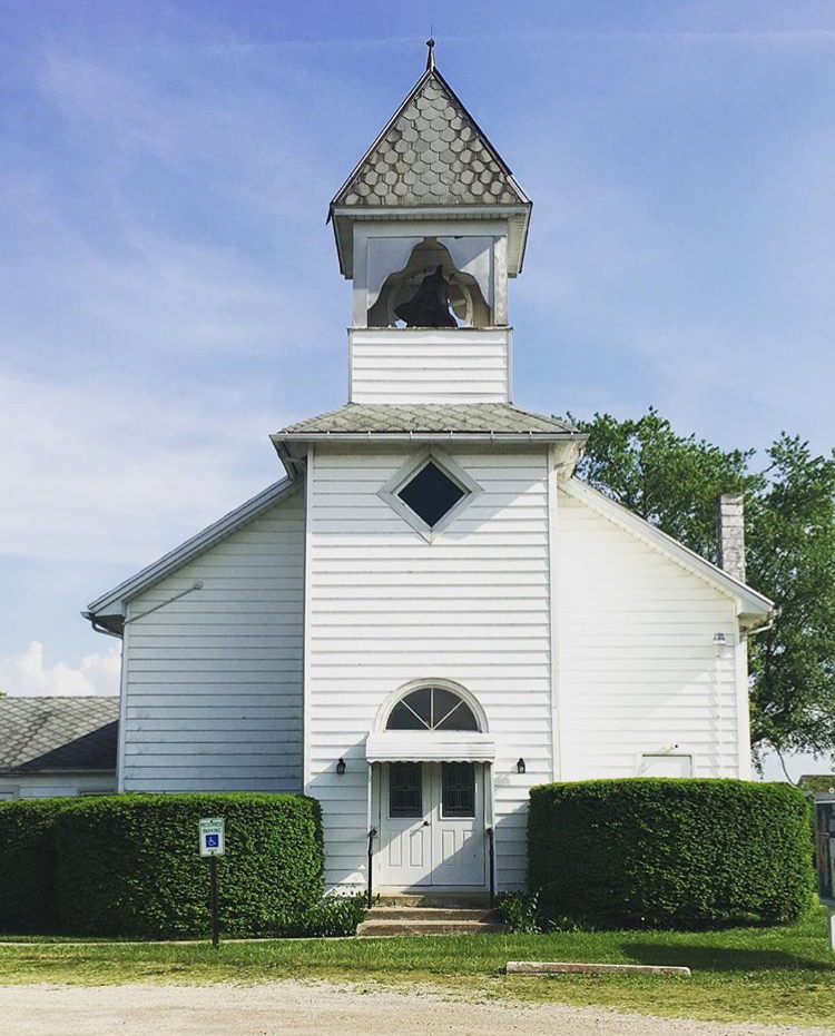 Front view of Scioto Chapel United Methodist Church.